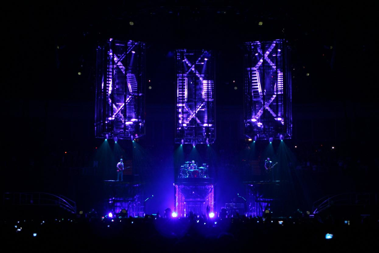 The three Towers duringa gig in 2009